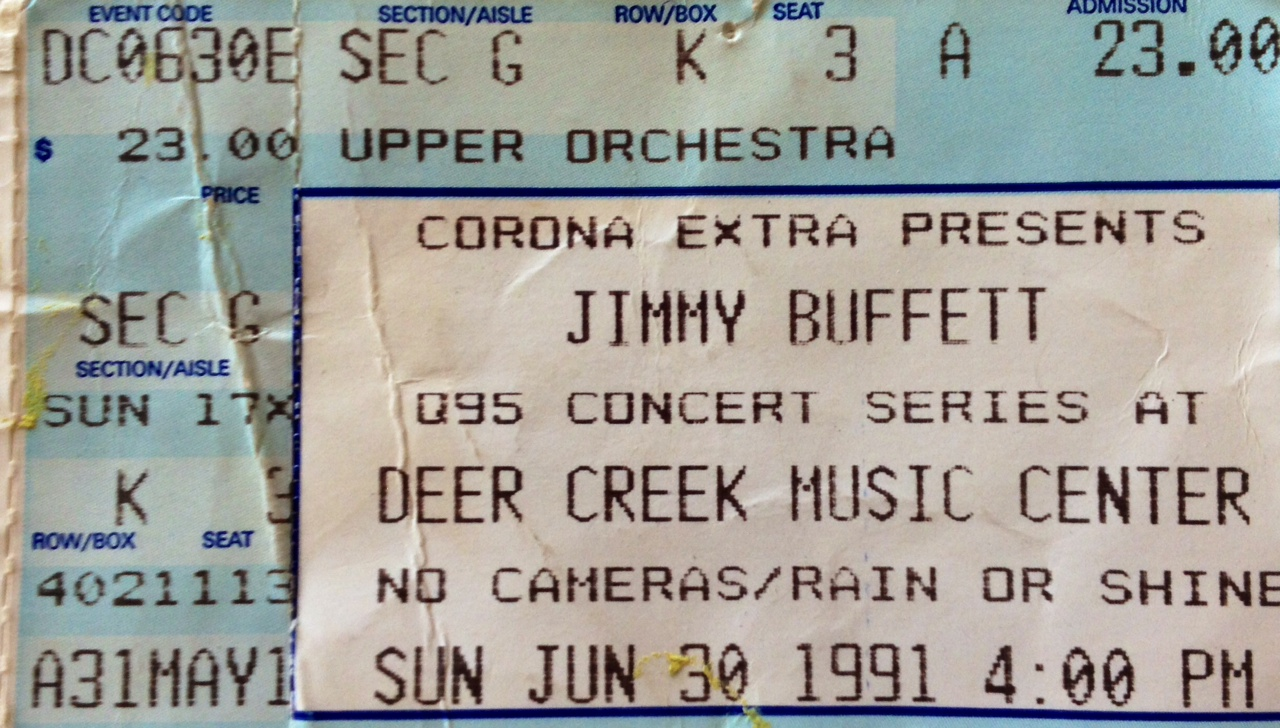 Jimmy Buffett concert ticket June 30, 1991 Noblesville, Indiana